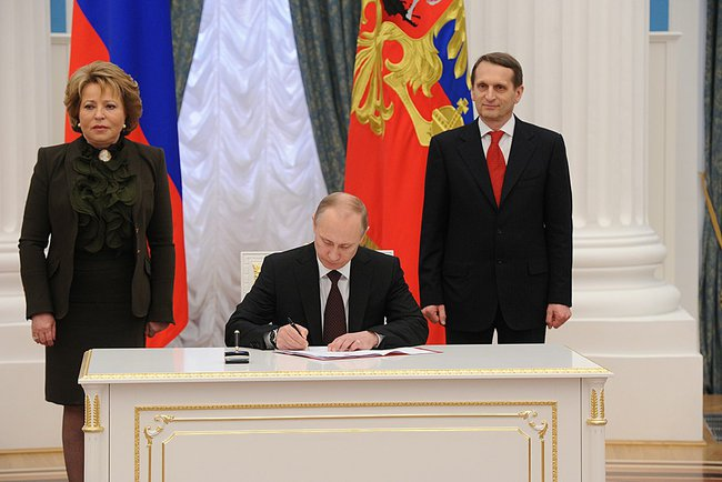 Ceremony signing the laws on admitting Crimea and Sevastopol to the Russian Federation